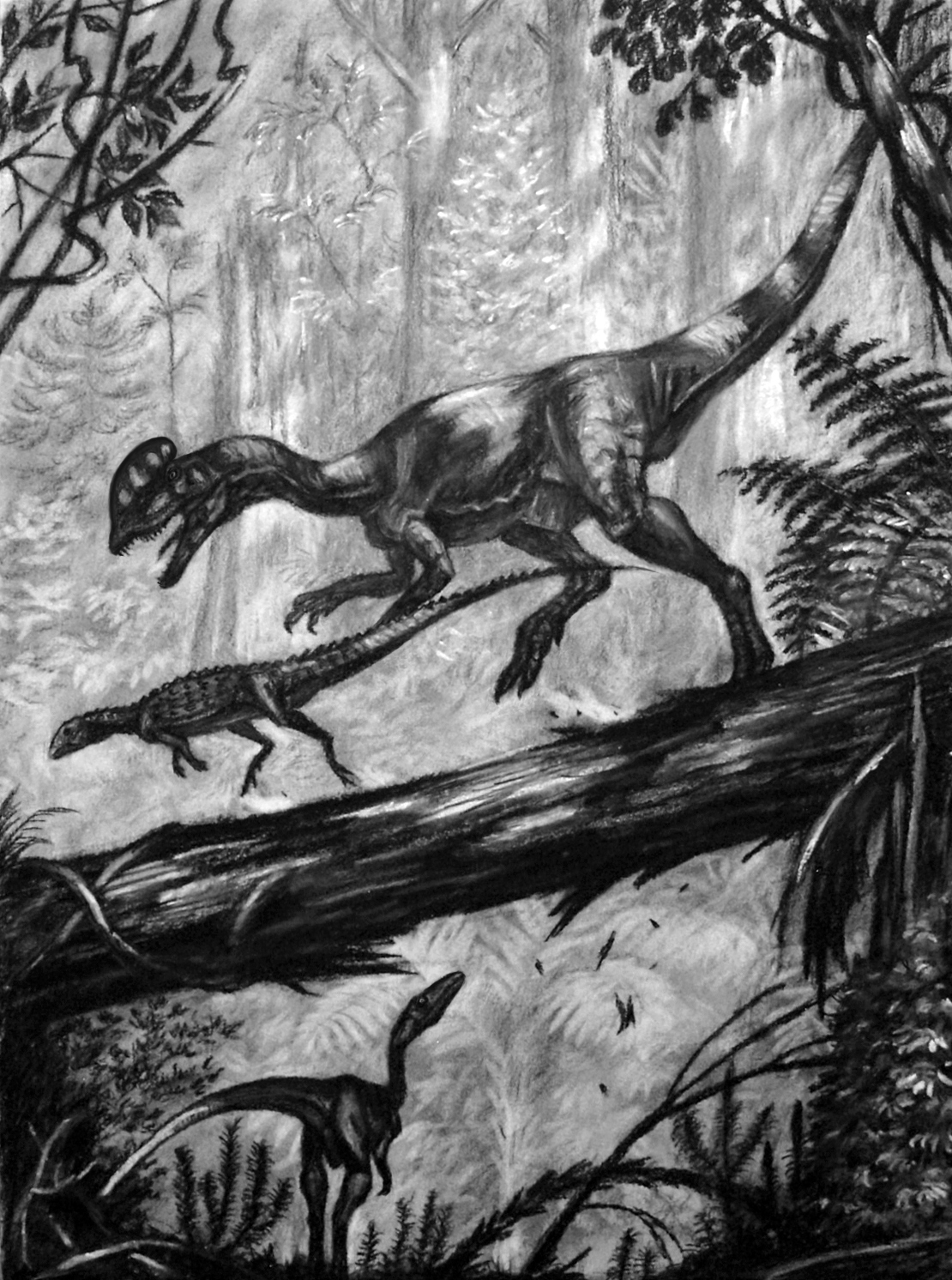 Dilophosaurus chasing Scutellosaurus. Matches diagrams in Paul, G. S. (2010). The Princeton Field Guide to Dinosaurs. Pp. 75-76 and 216.